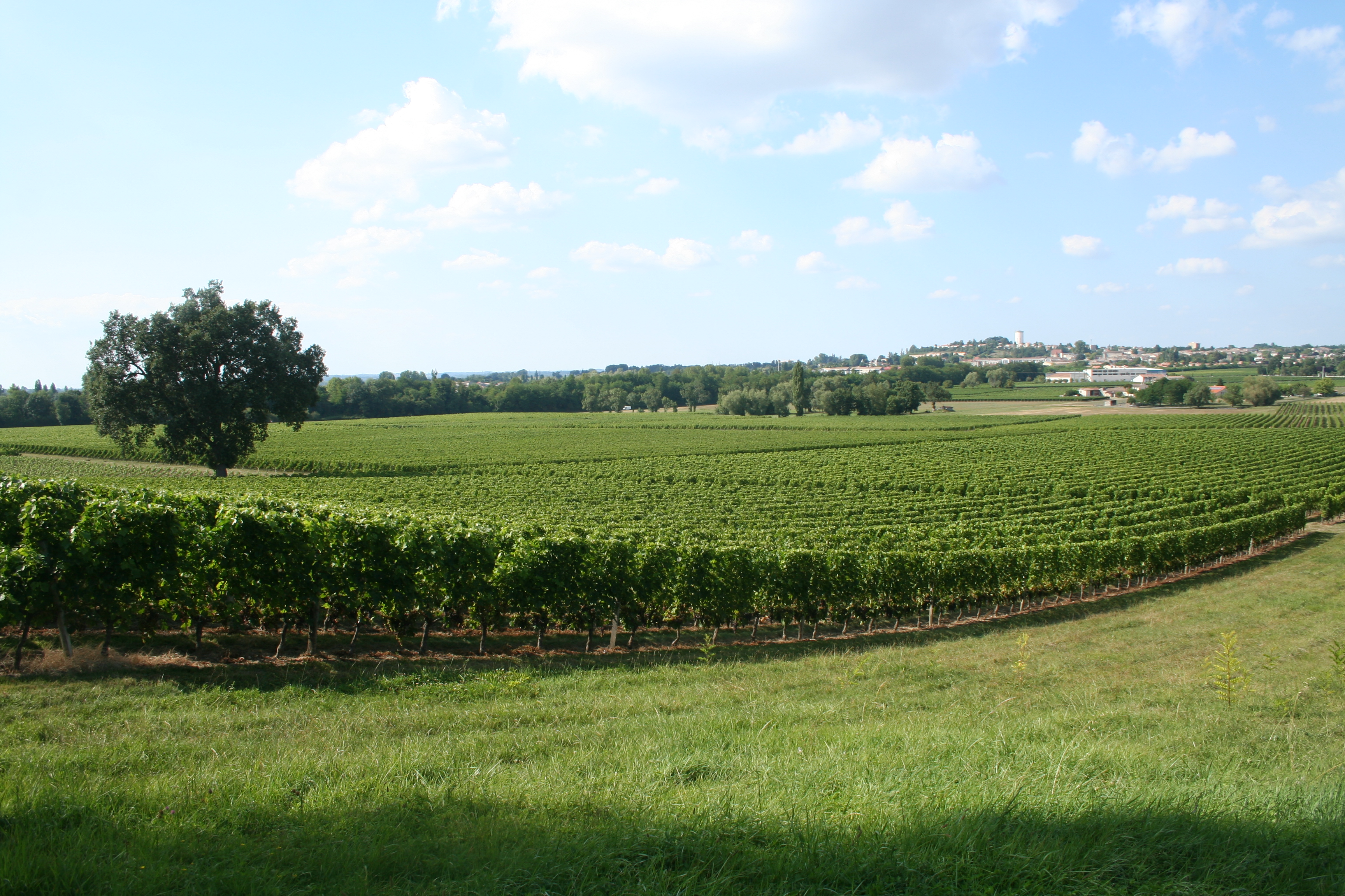 The wines of the chateau de Terrefort.